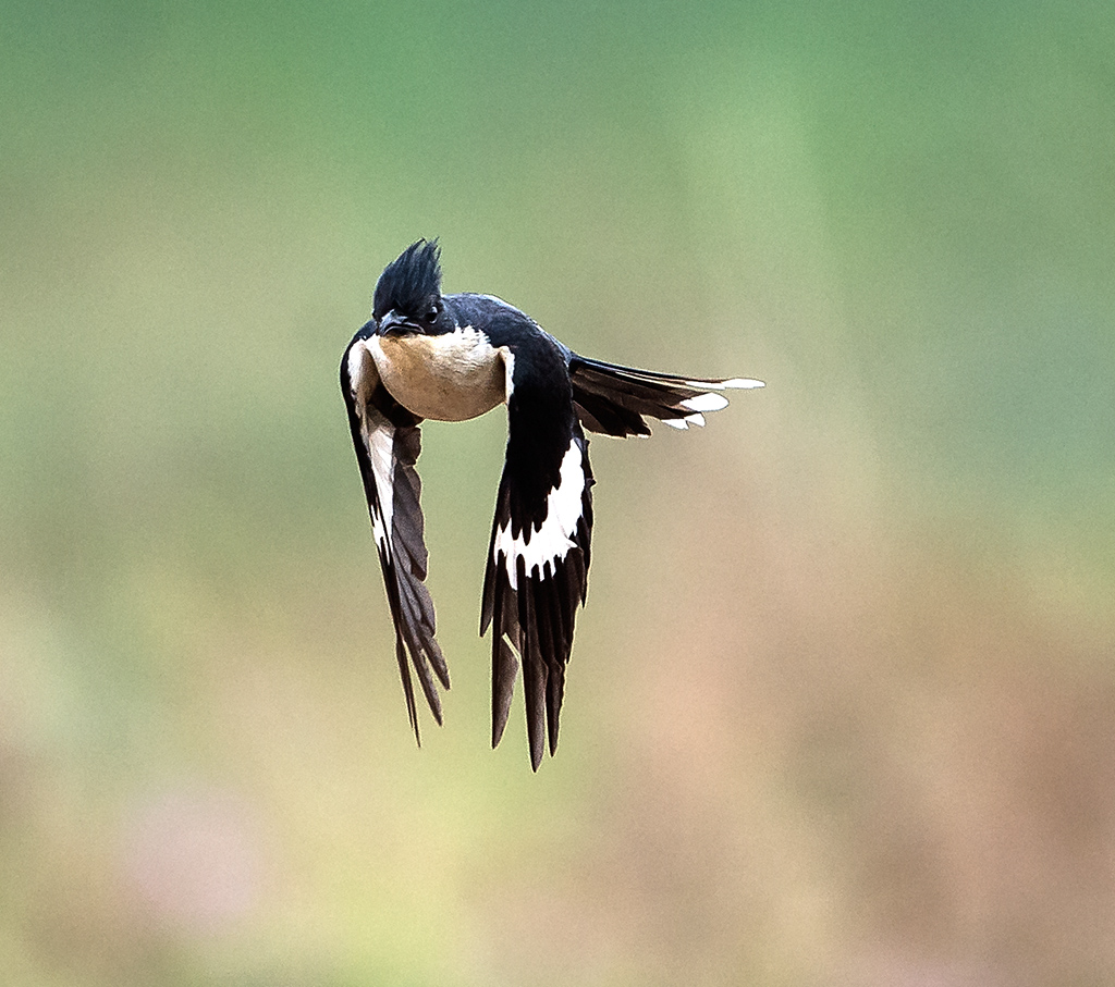 Pied cuckoo aka Jacobin Cuckoo, Harbinger of Monsoons in North India in flight at Sonkhaliya, Rajasthan August 2014